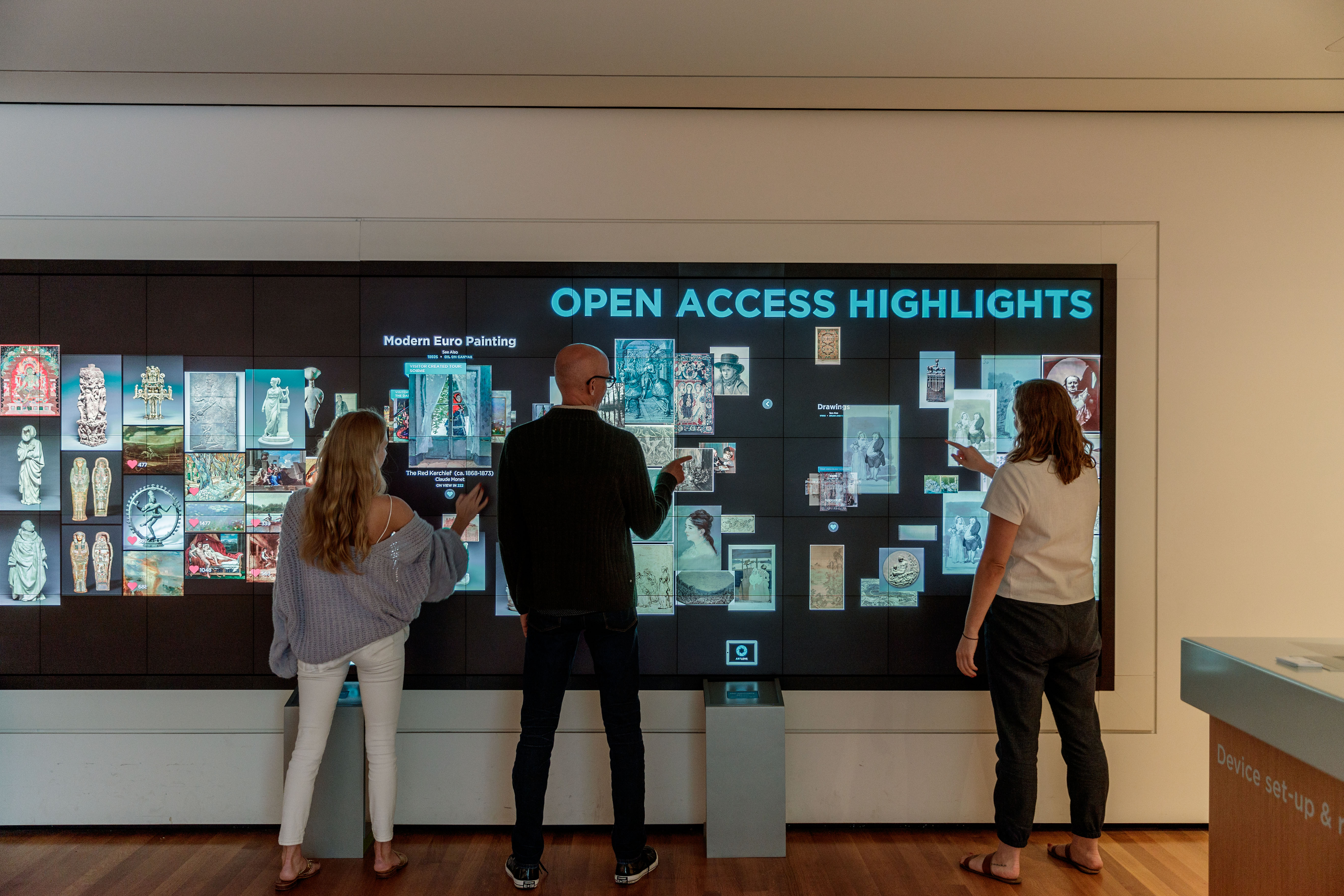 View of The Cleveland Museum of Art's touch interactive ArtLens Wall featuring "Open Access Highlights" from The Cleveland Museum of Art's Open Access program. With people.